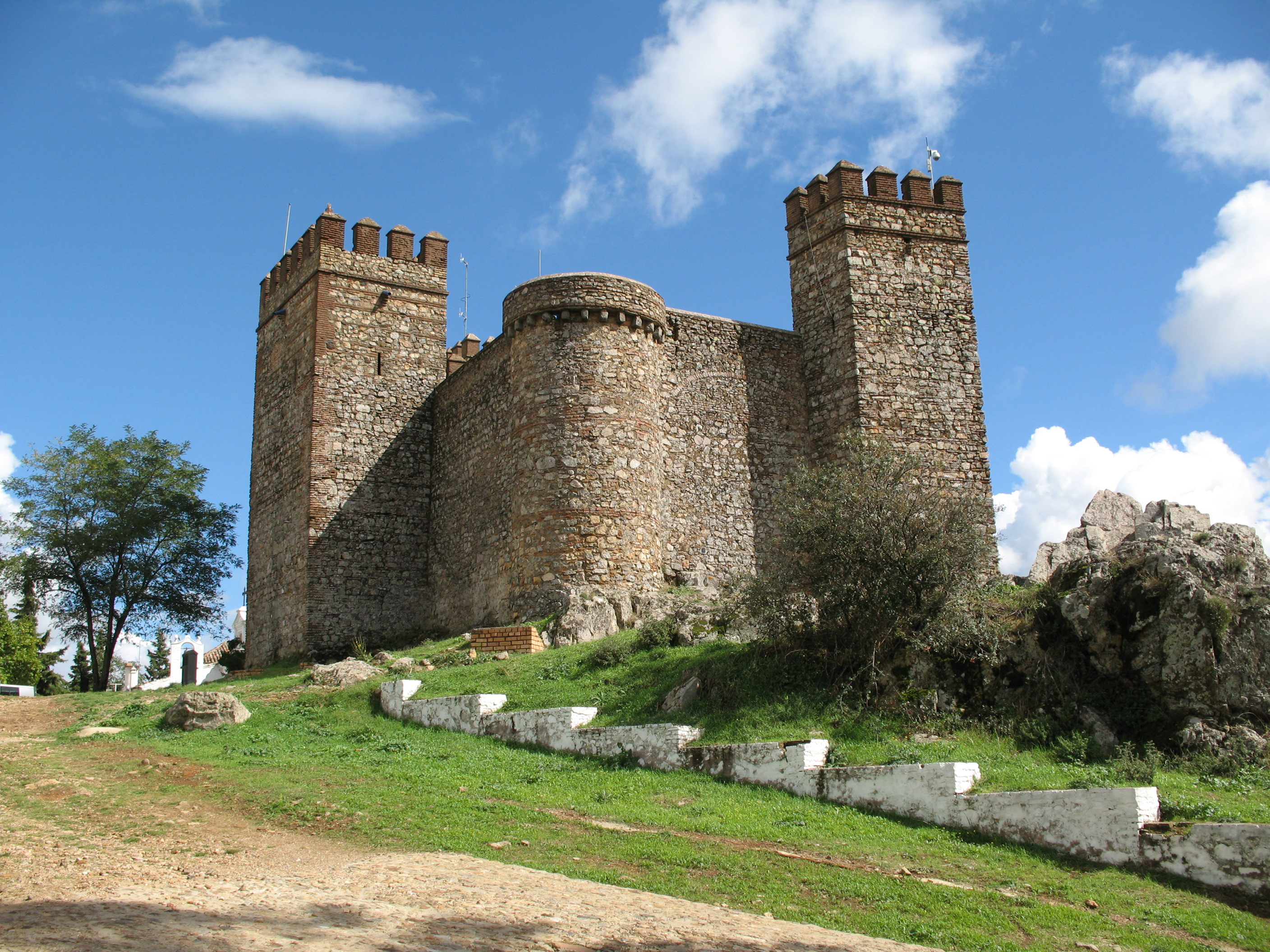 Castle in Cortegana, Andalusia.